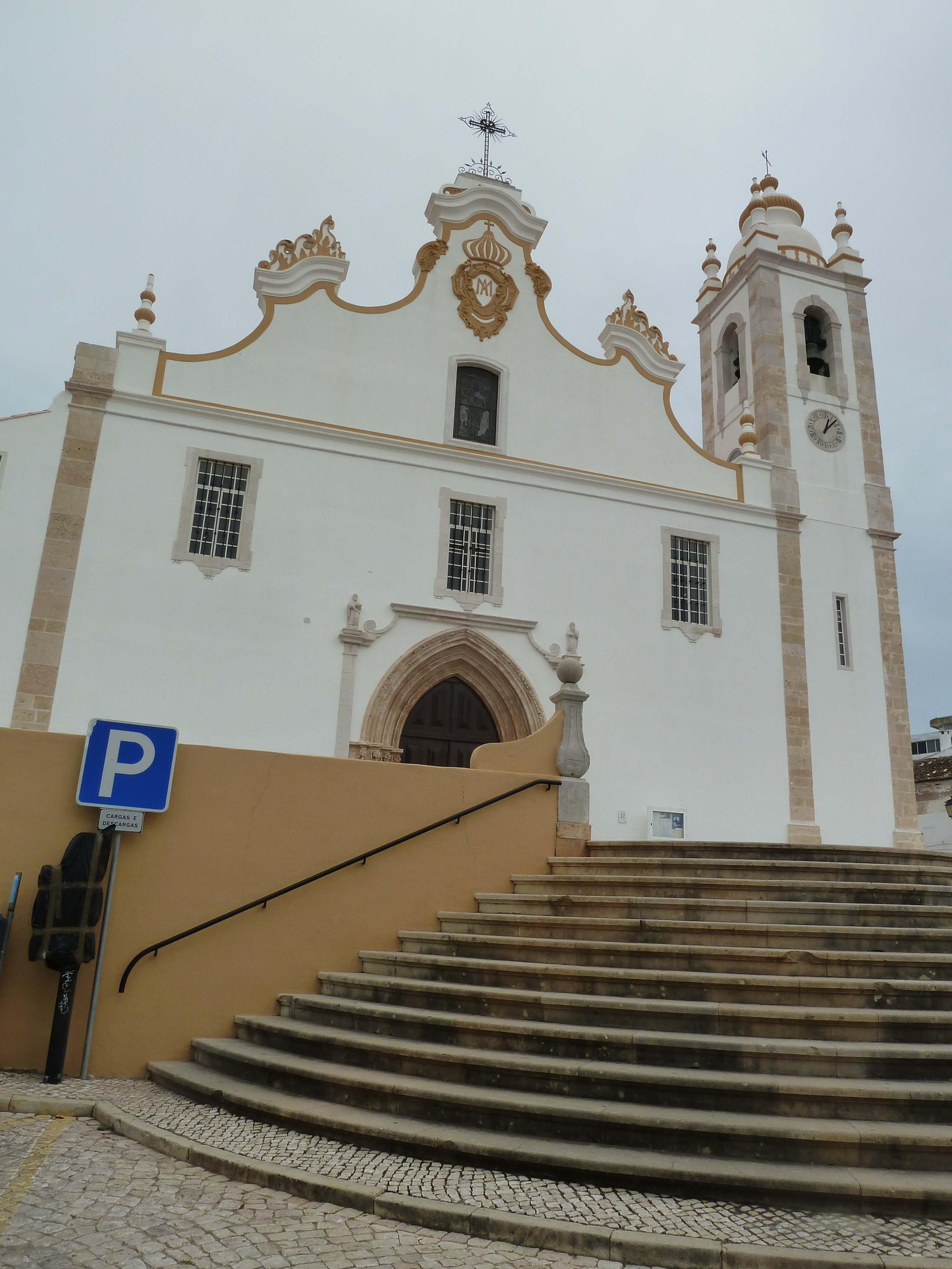 Portimão, Algarve, Portugal October 2015 Architecture in Portimão